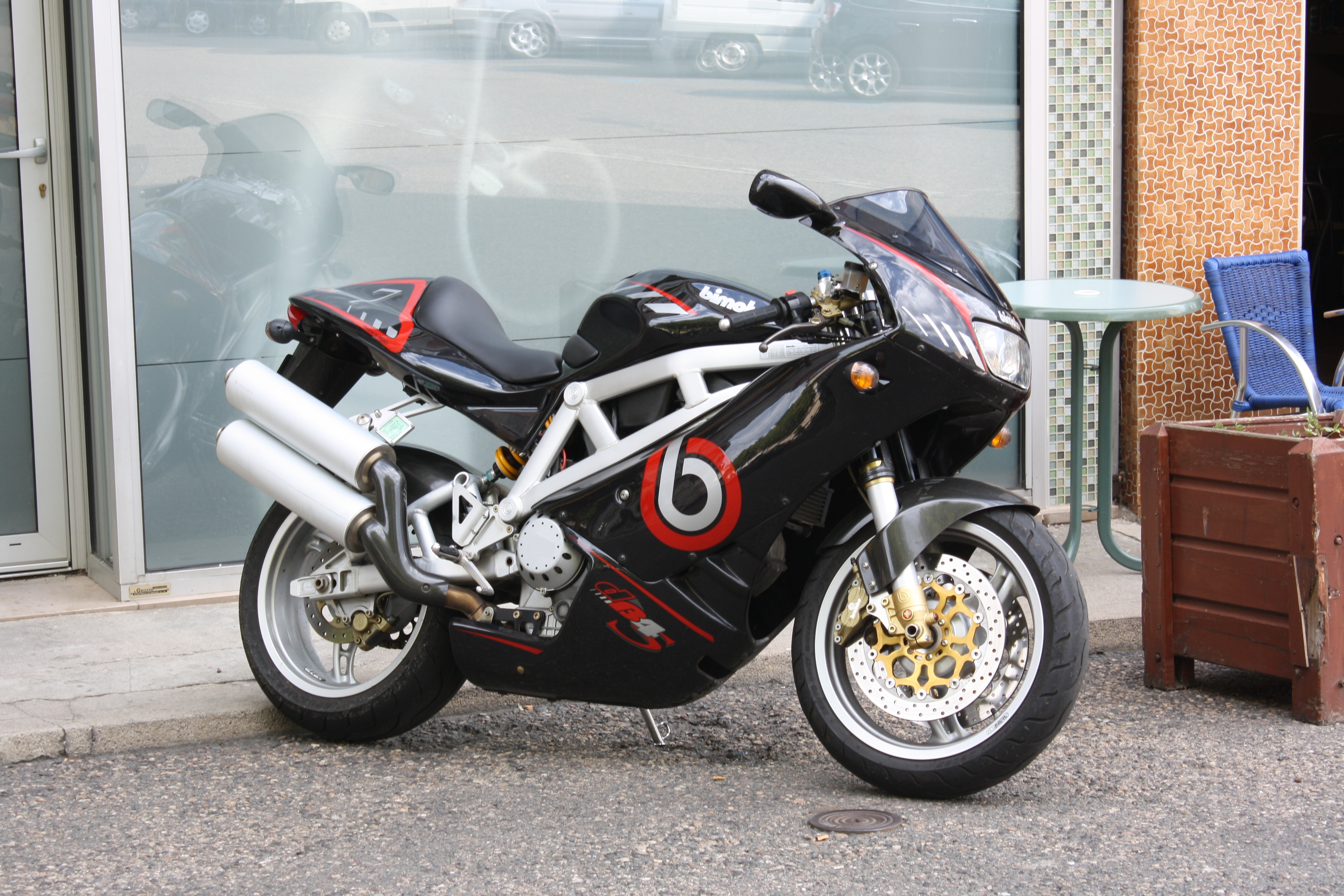 Bimota DB4S special paint with number 7